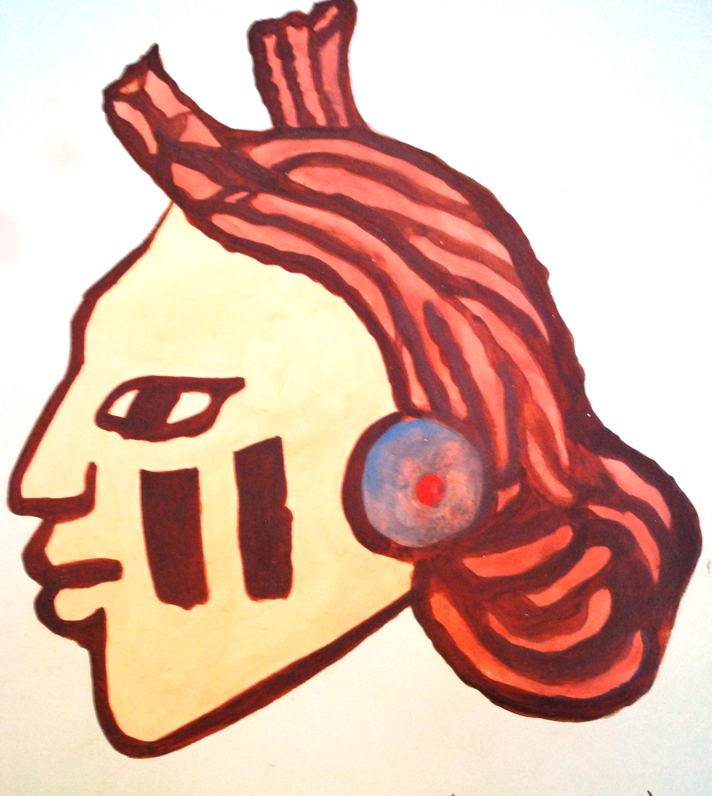 Glyph of Zihuatanejo (place of women)